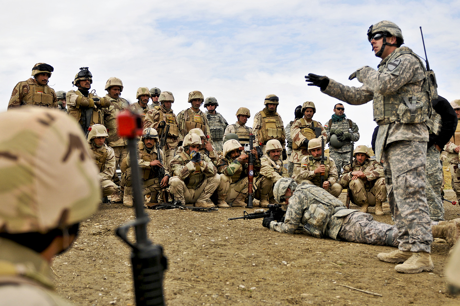 U.S. Army Sgt. Kevin Murphy (right) instructs Iraqi army soldiers on individual movement techniques during a class at the Ghuzlani Warrior Training Center, Iraq, on Feb. 2, 2011. Murphy is assigned to the 1st Cavalry Division's 1st Squadron, 9th Cavalry Regiment, 4th Advise and Assist Brigade.